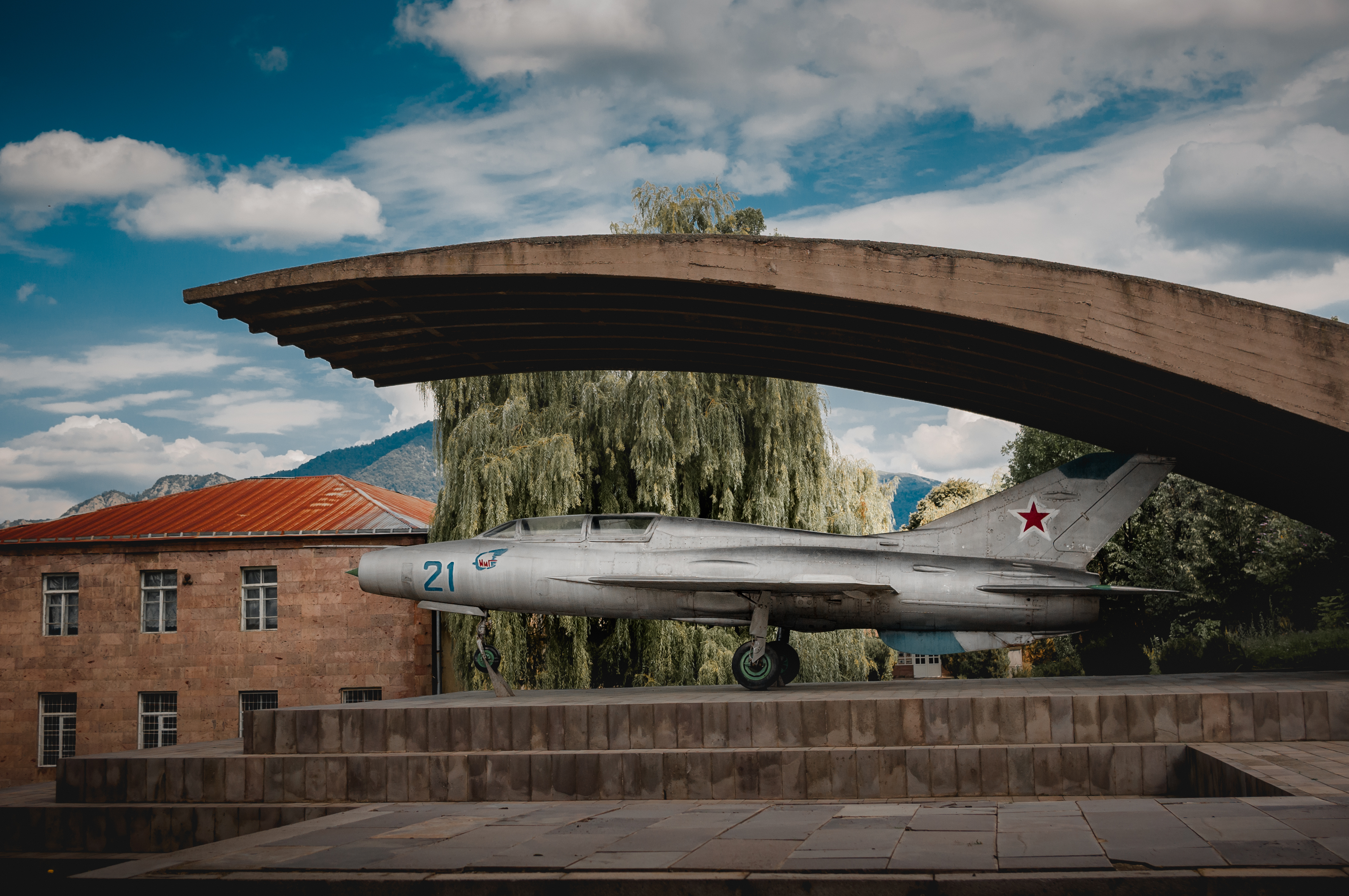 MiG-21 at the Mikoyan Brothers Museum in Sanahin, Armenia